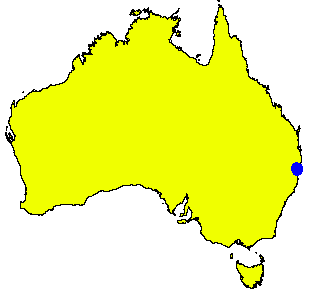 Angophora robur occurrence data downloaded from Australasian Virtual Herbarium using on 21 March 2019